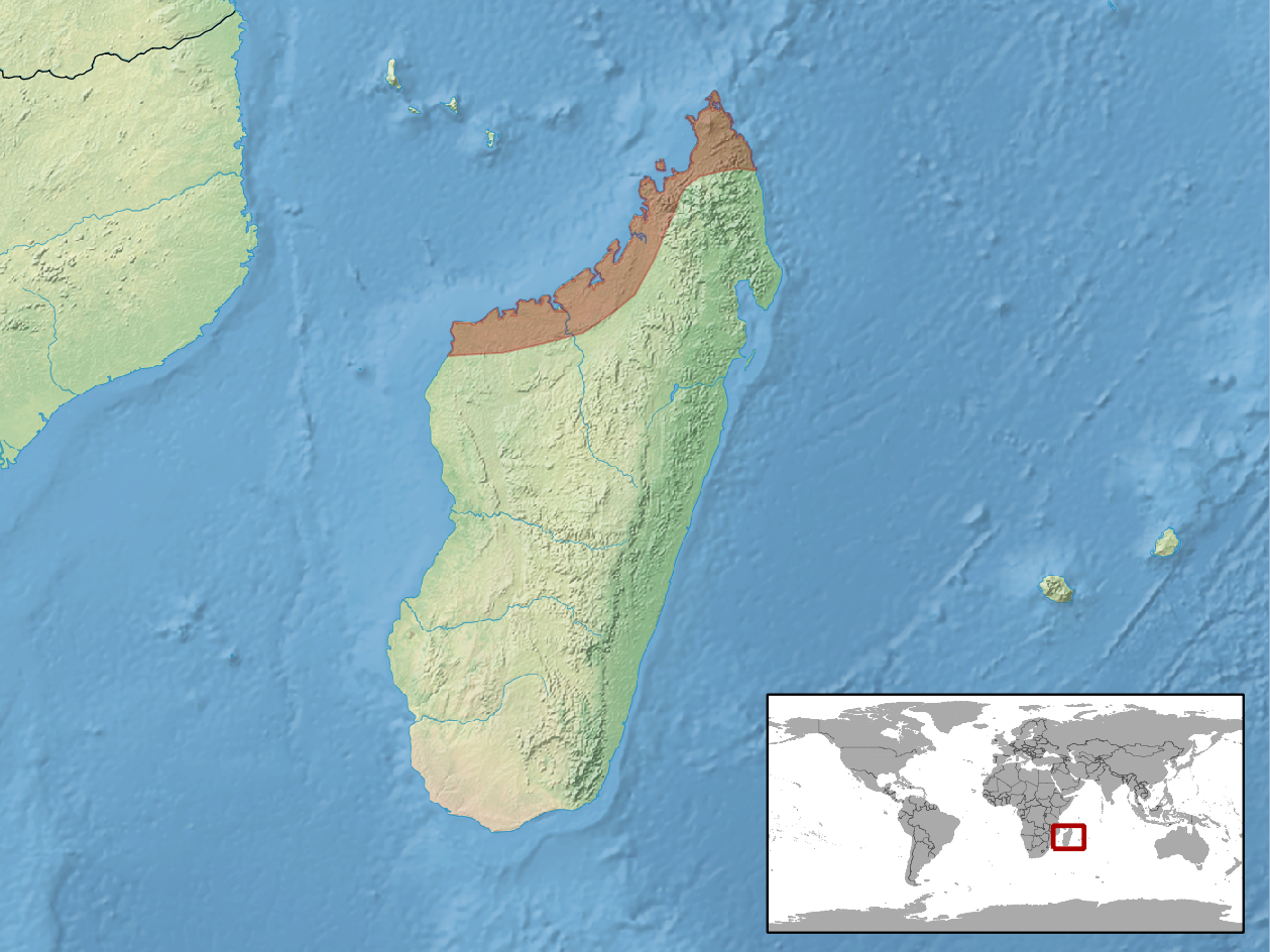 geographic distribution of Paroedura stumpffi (Native: Madagascar)